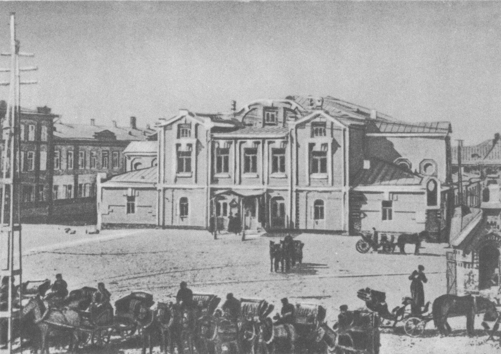 Vladikavkaz_theatre